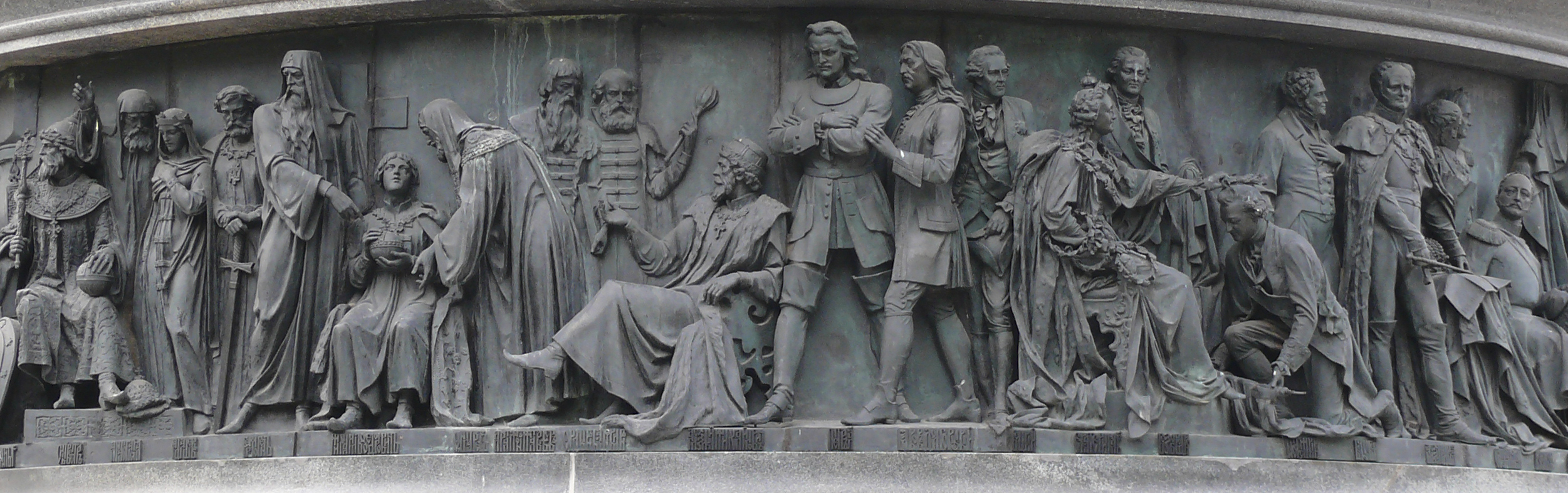 The group of statesmen on the Monument «Millennium of Russia» in Veliky Novgorod